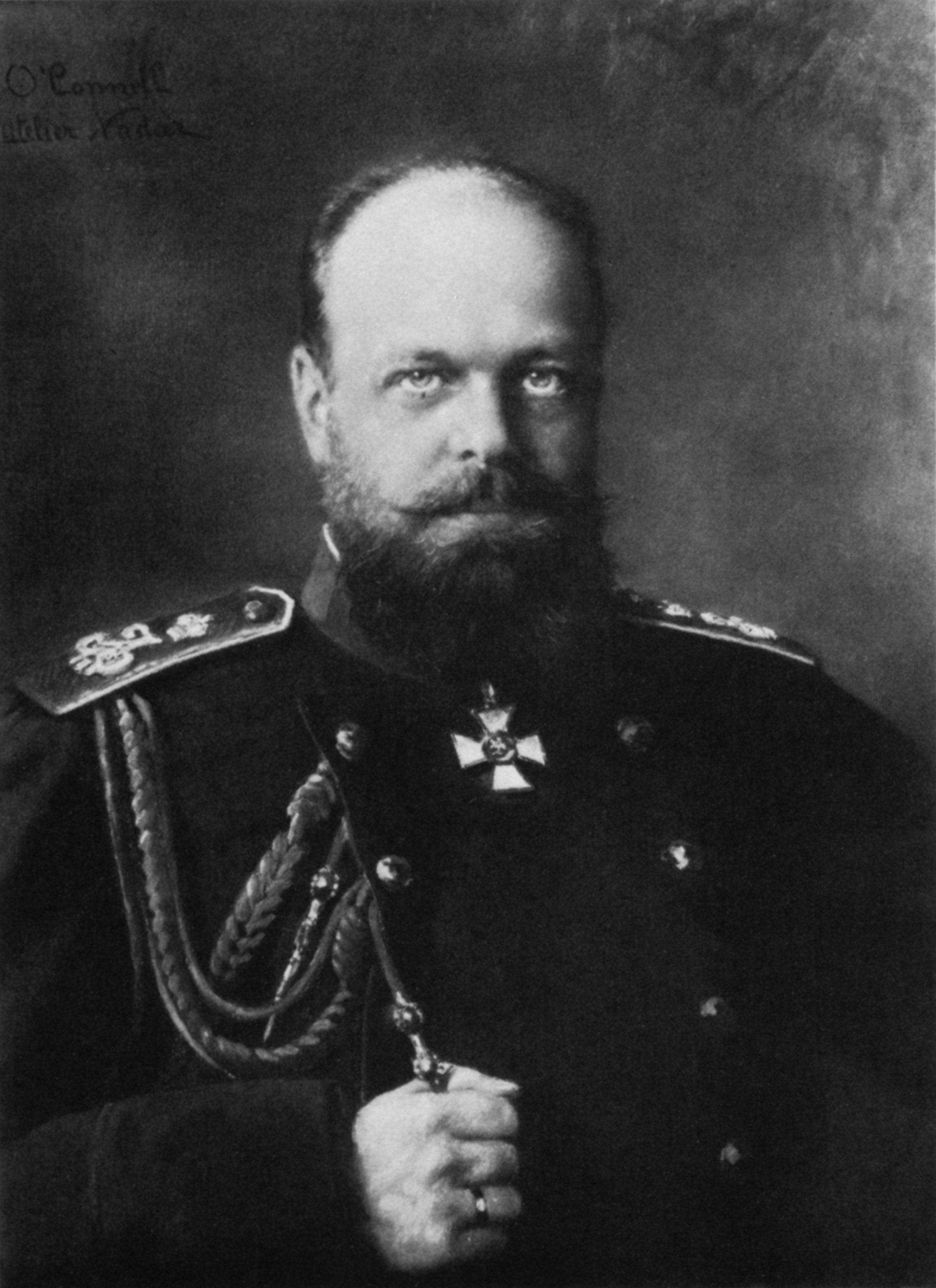 Félix Nadar. Alexander III, Czar Of Russia